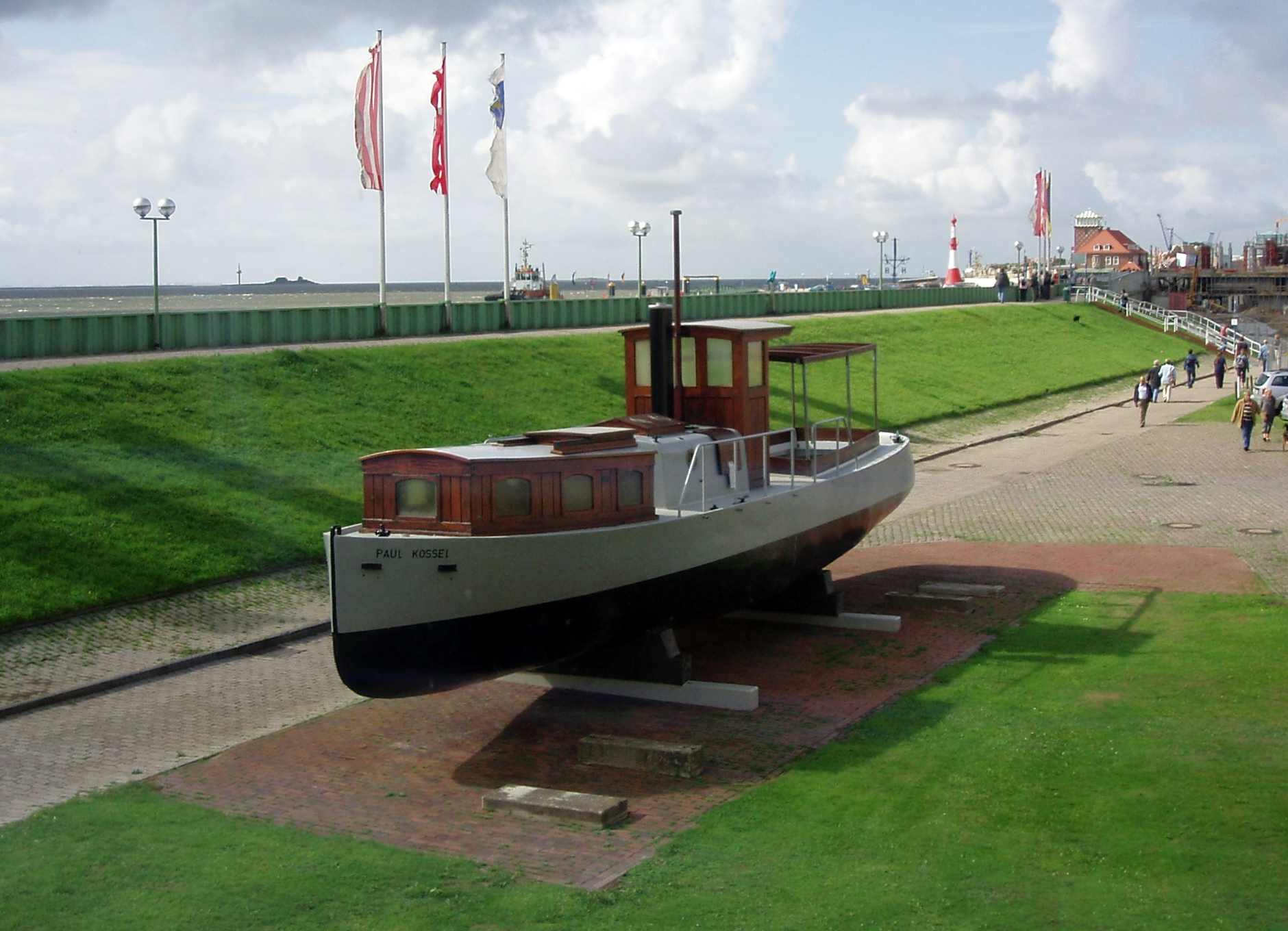 Betonrumpfschiff Paul Kossel German Shipping Museum Native nameDeutsches SchifffahrtsmuseumParent institutionLeibniz AssociationLocationHans-Scharoun-Platz 1 27568 Bremerhaven GermanyCoordinates53° 32′ 24.36″ N, 8° 34′ 37.2″ E Established5 September 1975Web pageDeutsches SchifffahrtsmuseumAuthority control : Q455354 VIAF: 128715457 ISNI: 0000 0001 2256 5668 LCCN: n50065866 NLA: 35745010 GND: 2008892-9 WorldCat